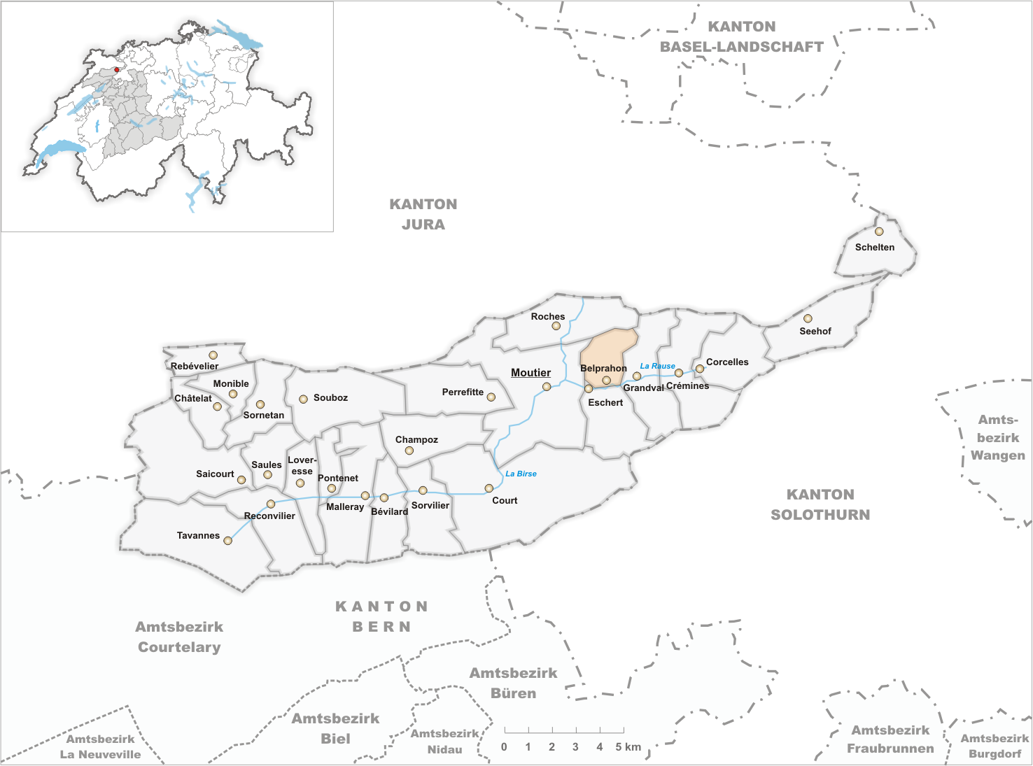 Municipality Belprahon